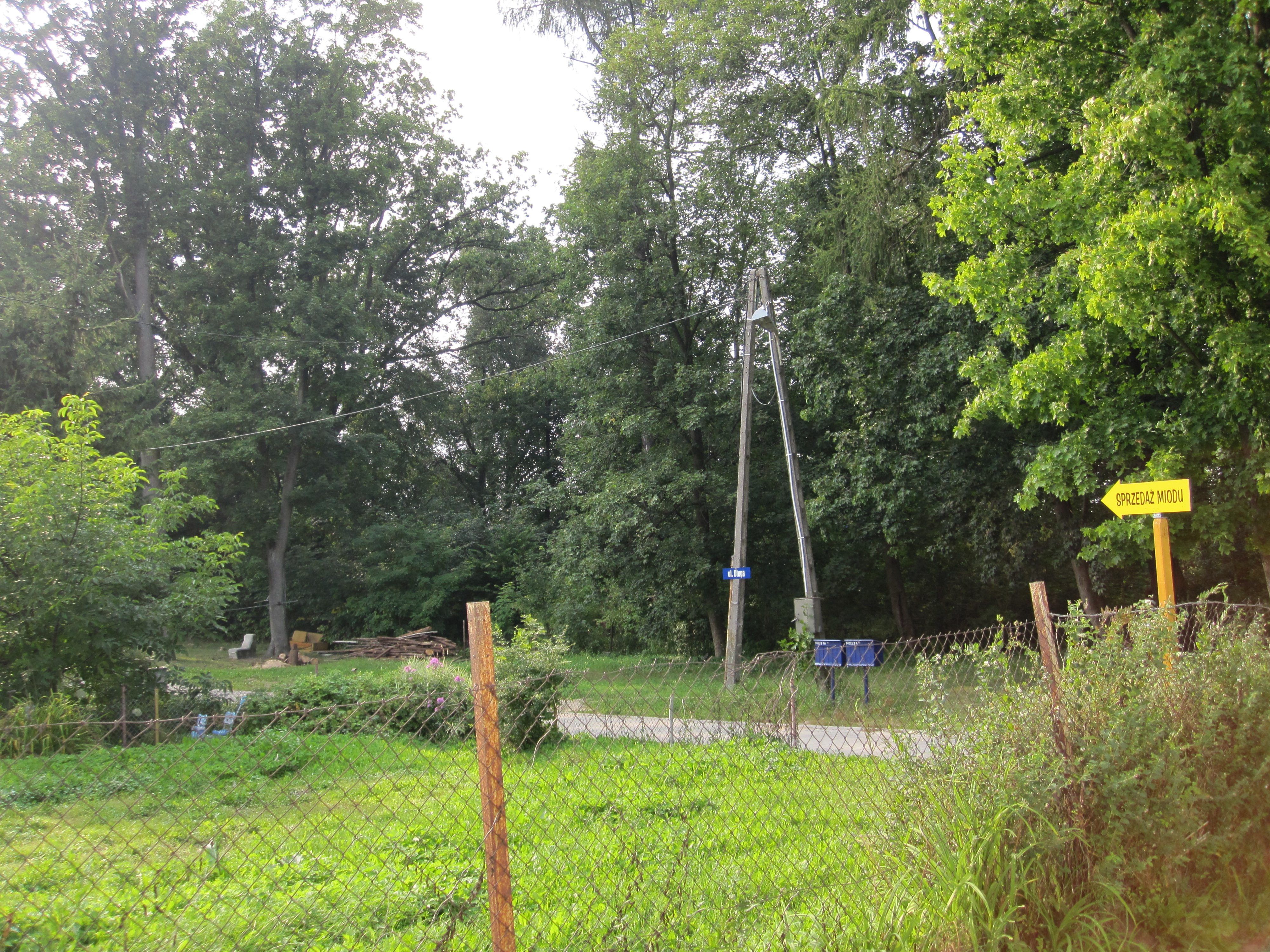 Manor park in Rybno (powiat mrągowski)